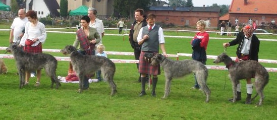 Deerhounds from kennel "FESTINA", Poland. The owner is Hanna Wożna - Gil